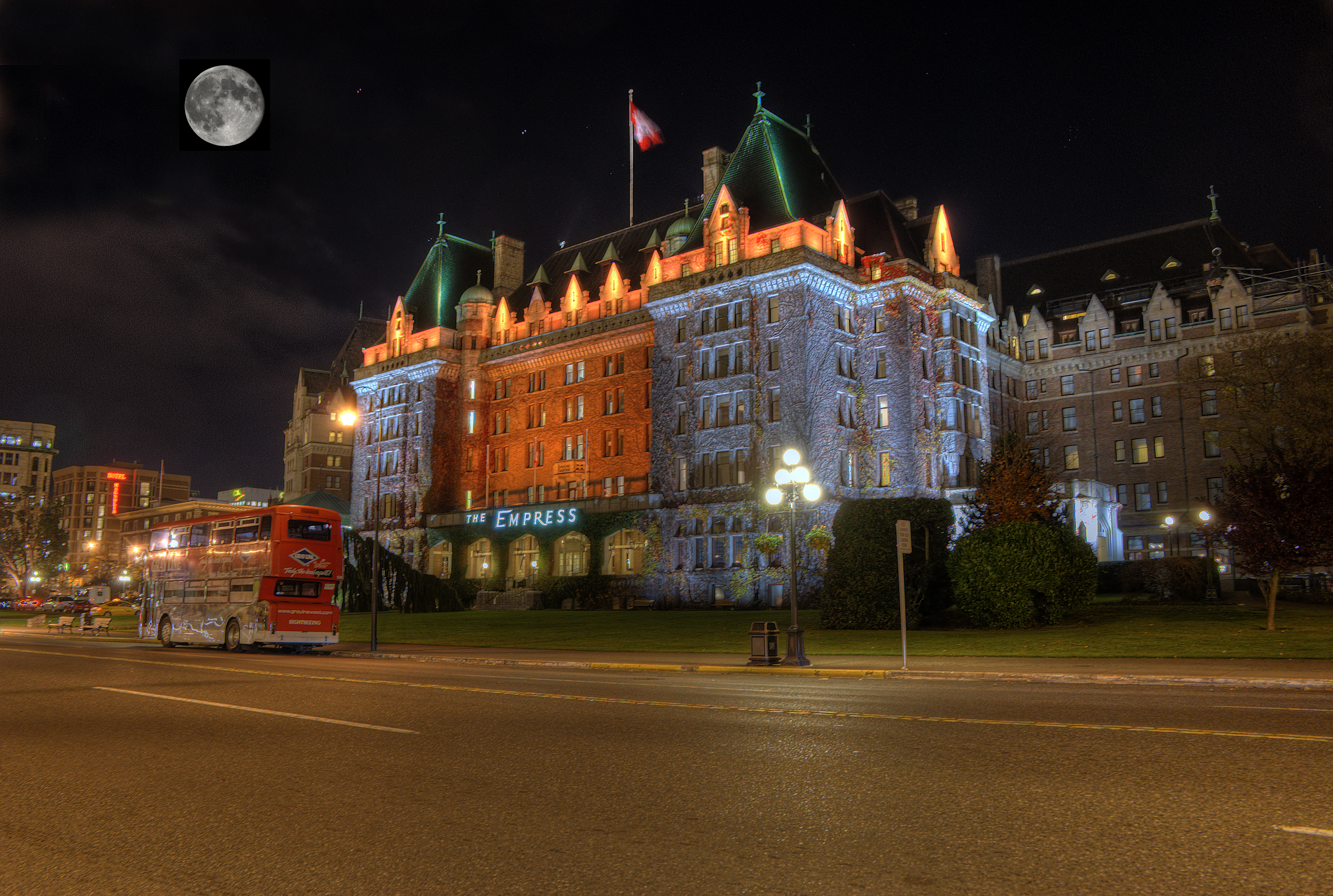 The following is the author's description of the photograph quoted directly from the photograph's Flickr page."BIGGER IS BETTER! (press F11 for full screen view)The great thing about The Empress Hotel is that it's exterior changes with the seasons due to the ivy that grows on it's walls. Green in the Spring/Summer, red in the Fall, and bald in the winter. I joke that it looks like a freshly shaven guy in the winter. =D Today was my first time out shooting in weeks...... I finally got out, and did I ever get some awesome shots! I have been a little busy lately trying to find work in a town that has little to offer in the way of jobs. I'm sorry, I think there are a couple of people that I didn't get back to. I will be sure to catch up with you all in the morning over coffee. =DHave a good day/night wherever you are on the planet. Update: I finally got a job today. Thanks for all the good wishes. =D "